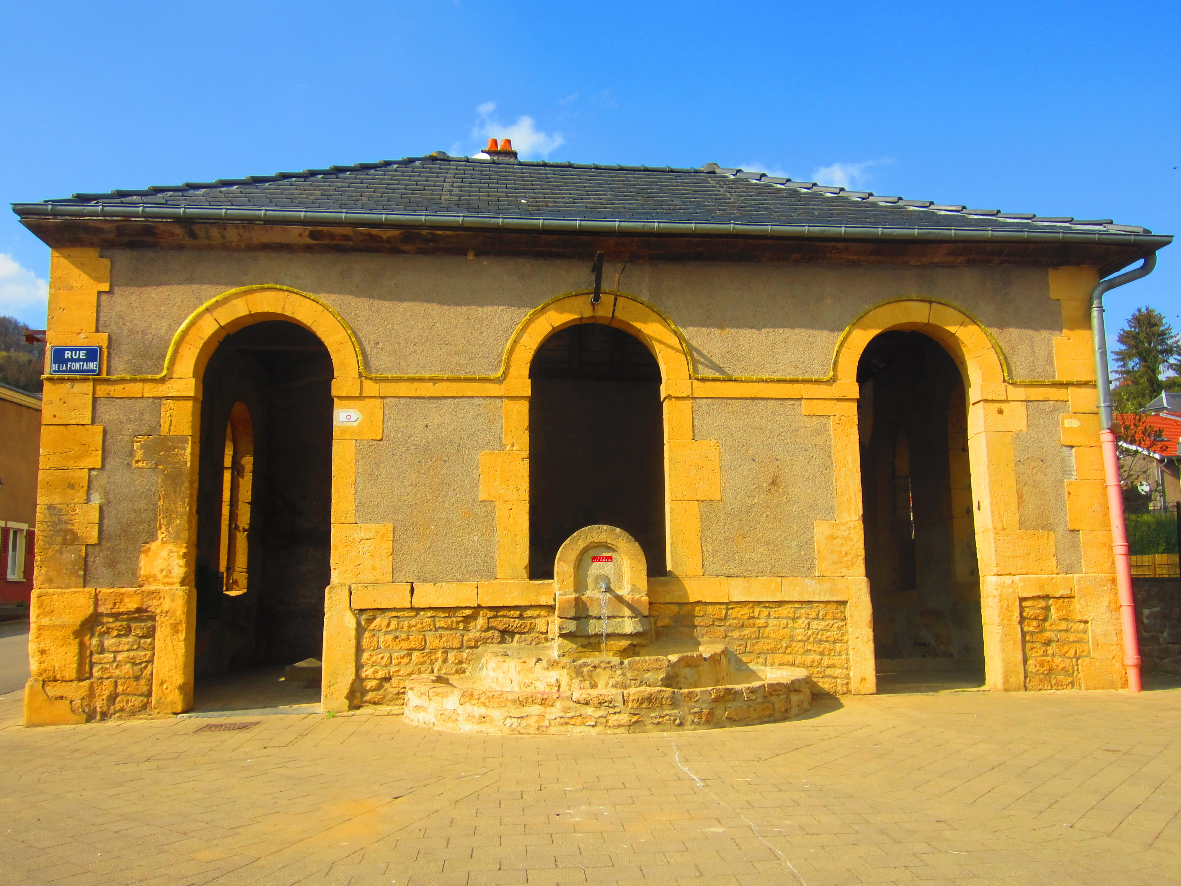 Lavoir Viviers-sur-Chiers